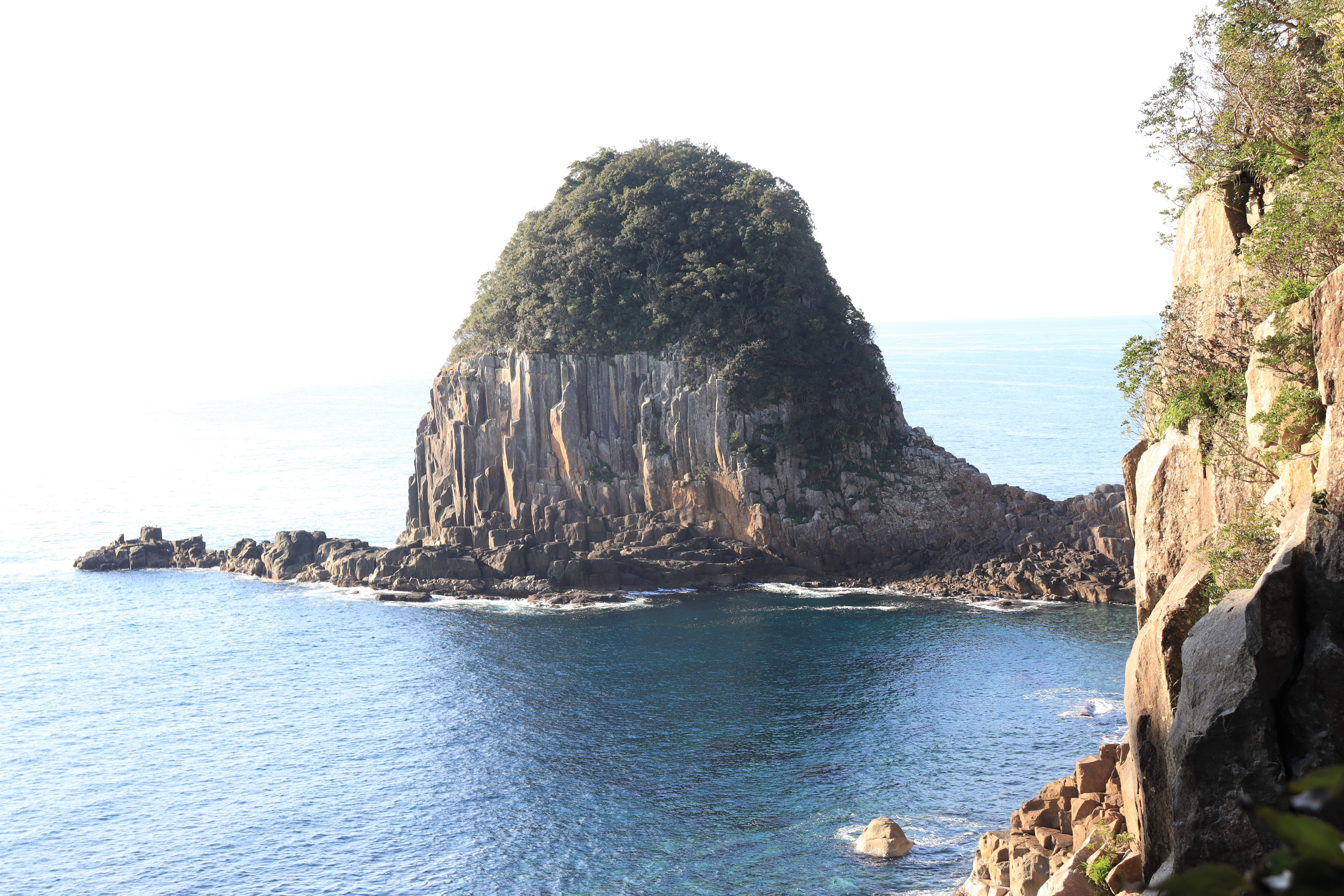 Tategasaki in Hobocho, Kumano, Mie Prefecture Japan.